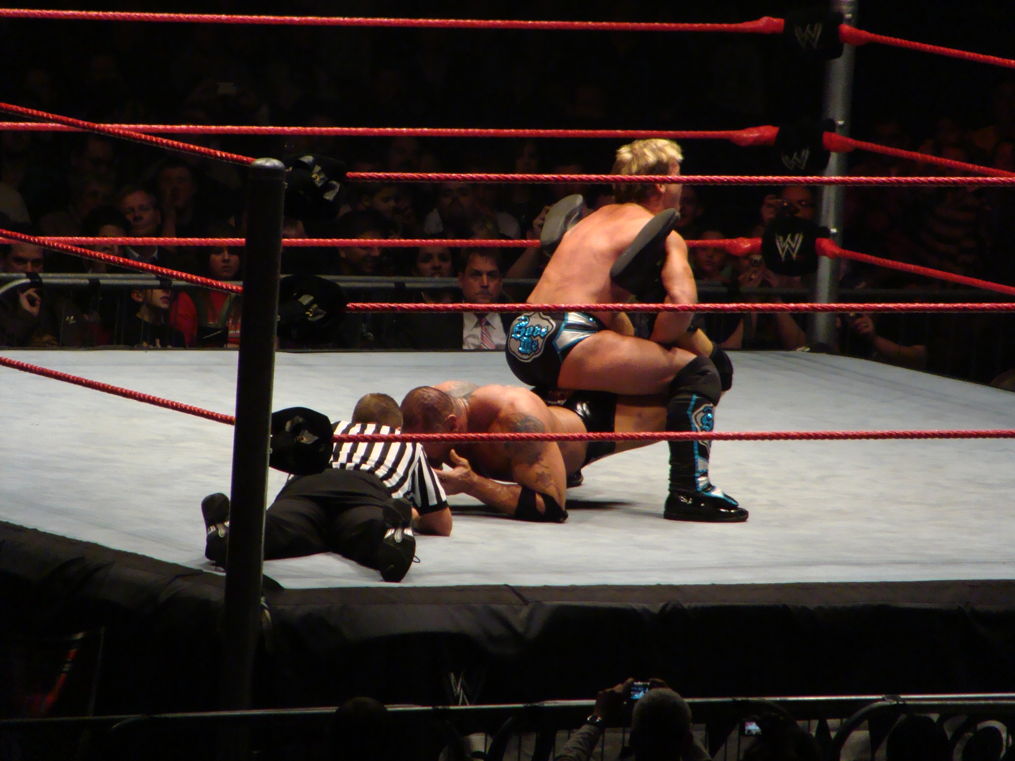 Chris Jericho (Christopher Irvine) applying an Elavated Boston Crab, i.e. The Walls of Jericho to Batista (David Bautista)